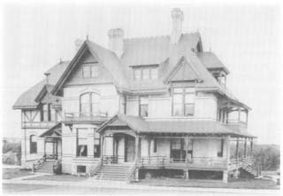 The Hearthstone as it appeared in 1887.